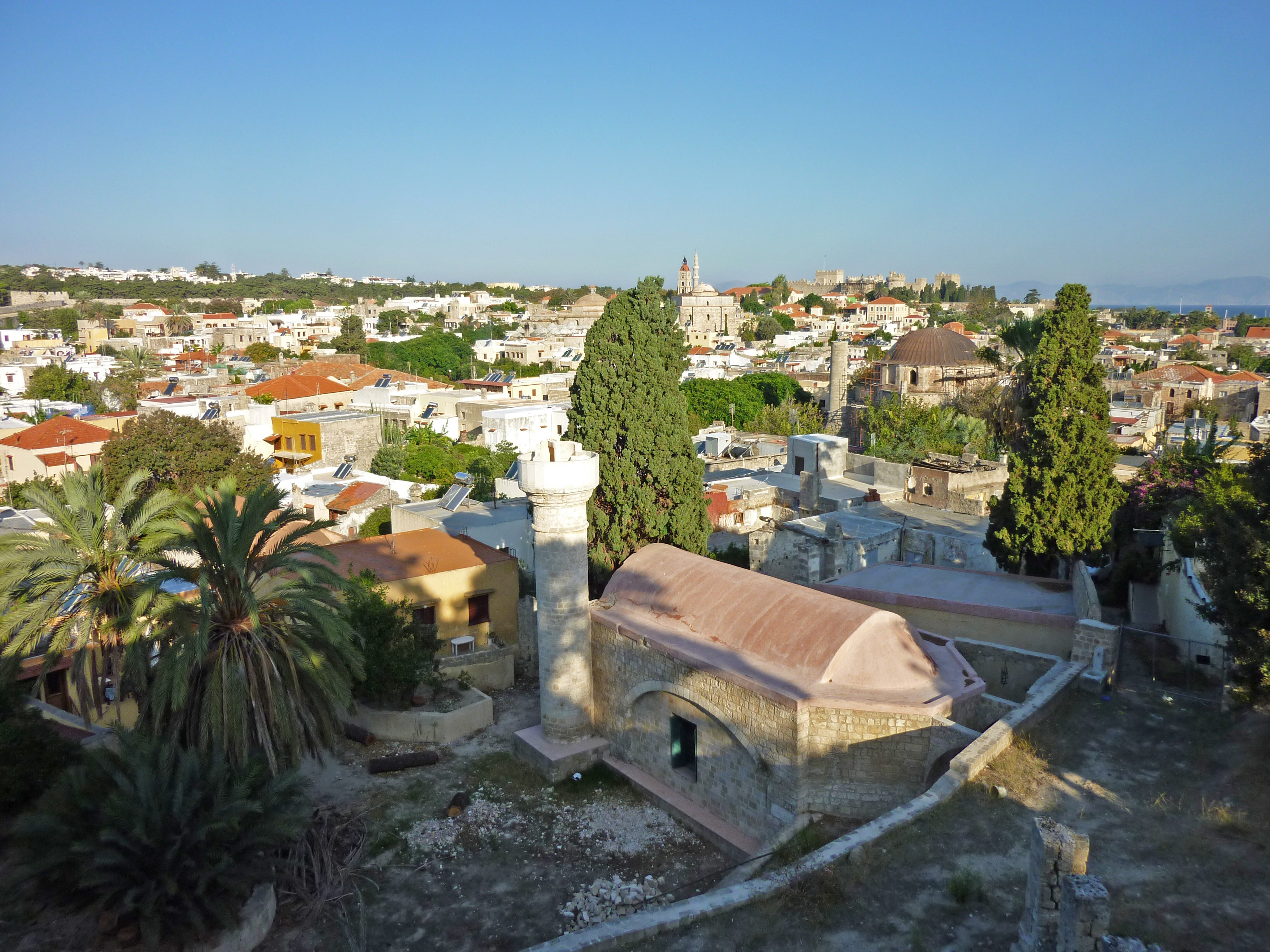 Church of Saint Kyriake in the Medieval City of Rhodes, Greece